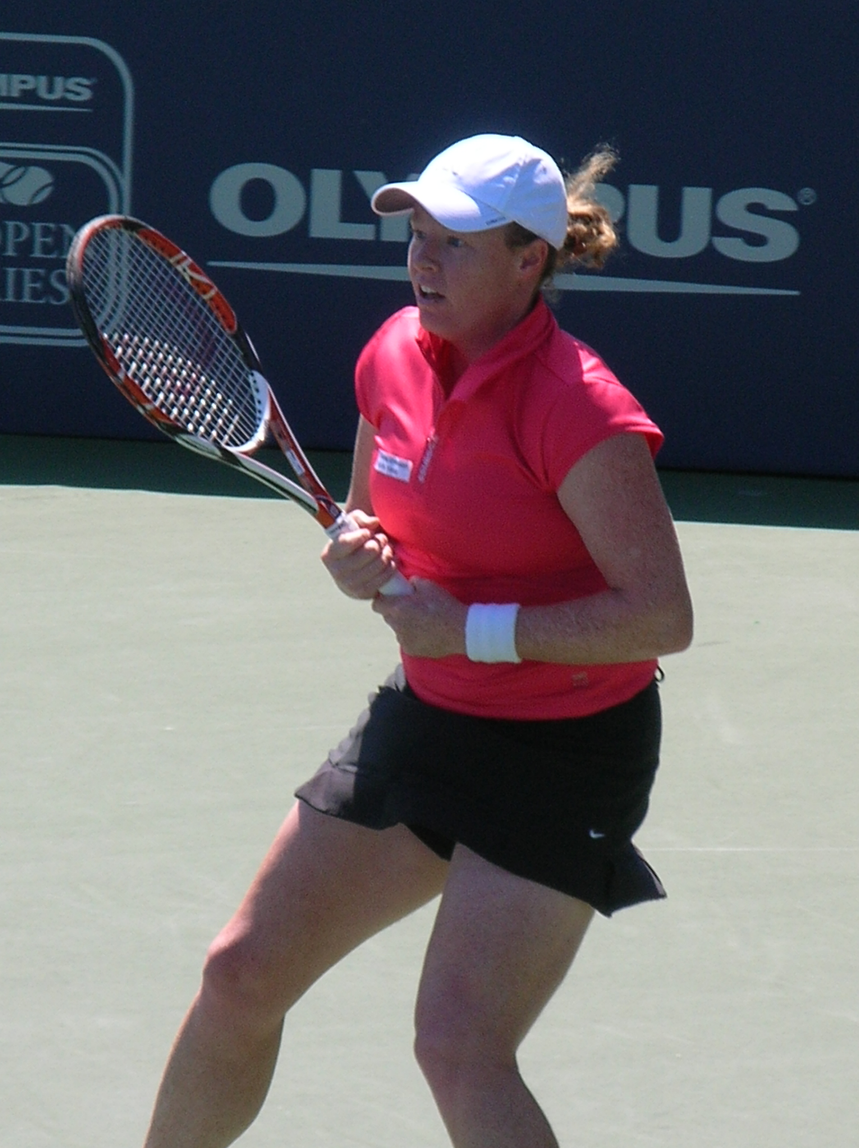 Natalie Grandin in the second round of qualifying at the Bank of the West Classic at Stanford. She lost to Michaëlla Krajicek 6-4, 7-6 (3).